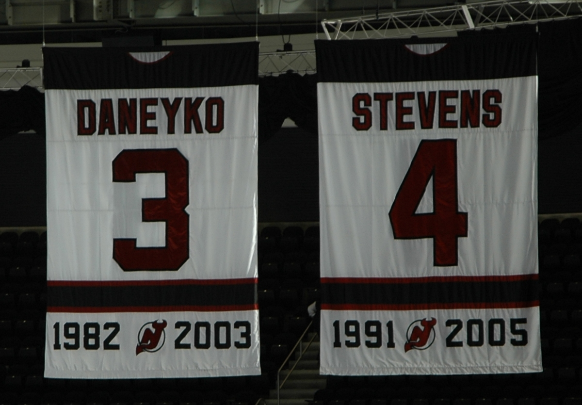 New Jersey Devils retired Numbers Banners in the Prudential Center